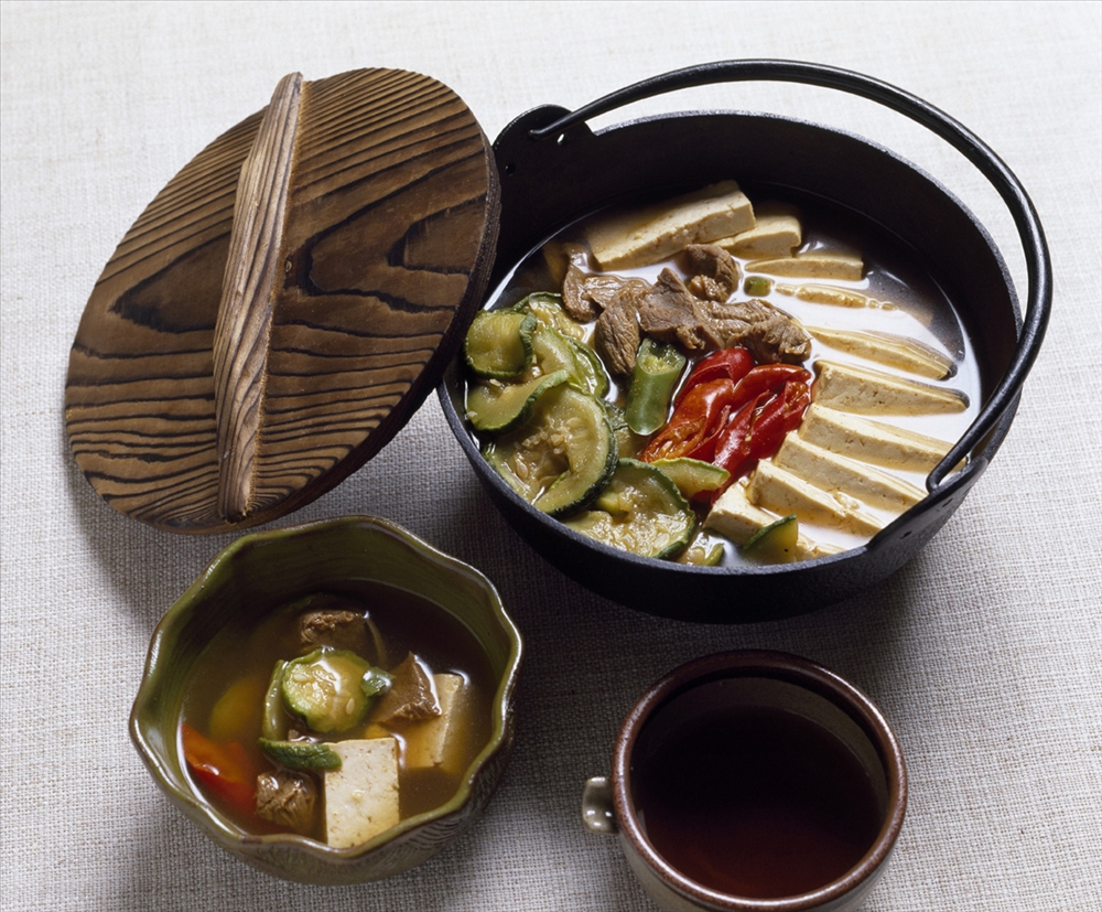 A moderately spicy and well-presented hot pot, made with tofu, beef, and vegetables. It is cooked at the table